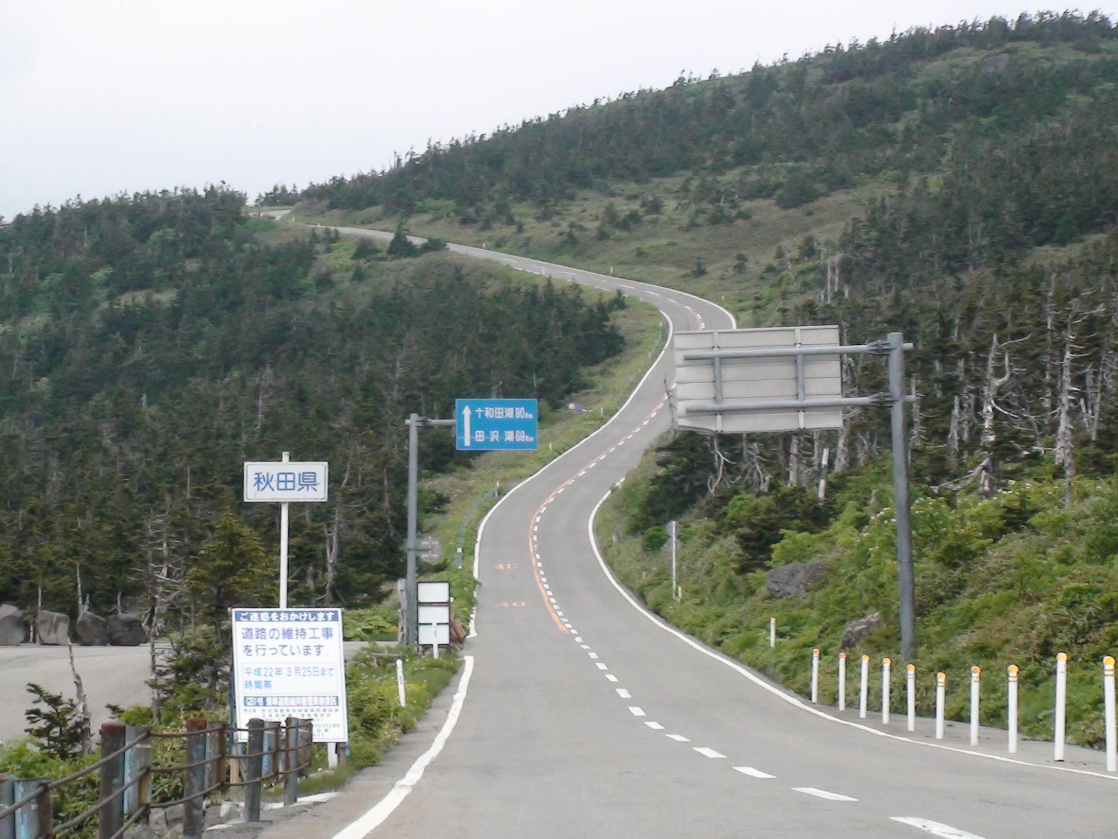 The Hachimantai Aspite Line, part of the Iwate Prefectural Road and Akita Prefectural Road Route 23, in Hachimantai National Park between Iwate and Akita Prefectures, North-eastern Honshu, Japan. Ex-toll road.